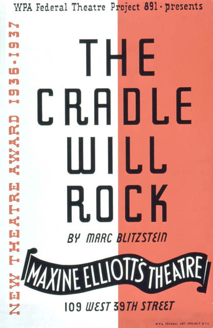 Title: The cradle will rock Creator: Blitzstein, Marc Other Contributors: Federal Art Project, sponsor Federal Theatre Project (U.S.), sponsor United States. Work Projects Administration, sponsor Catalog No.: F7-11A-1 Date Created: 1937 Date Issued: 2002-12-18 Subjects: Theatrical posters, American DOC Collection(s): Federal Theatre Project Poster, Costume, and Set Design Slides Collection Web Site: Links for viewing/playing this object: Digital Collection Web site: Multi-page image viewer: Display Files: Web display version: F7-11A-1display.jpg (image/jpeg) 53439 bytes